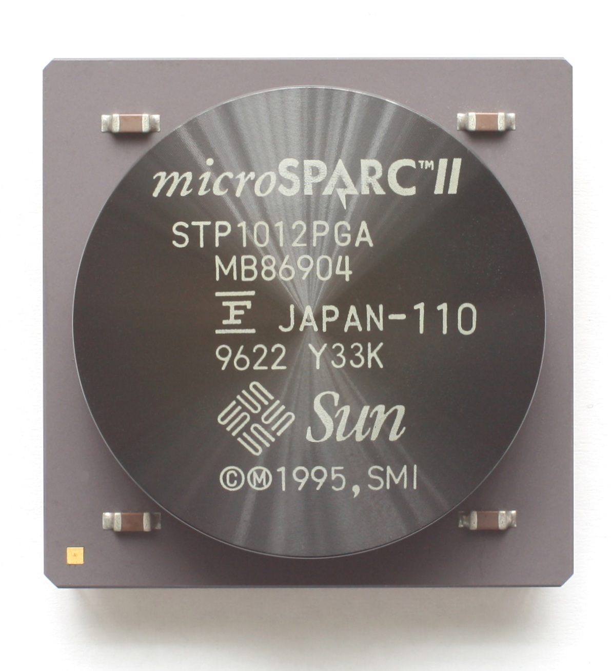 CPU Sun microSPARC II